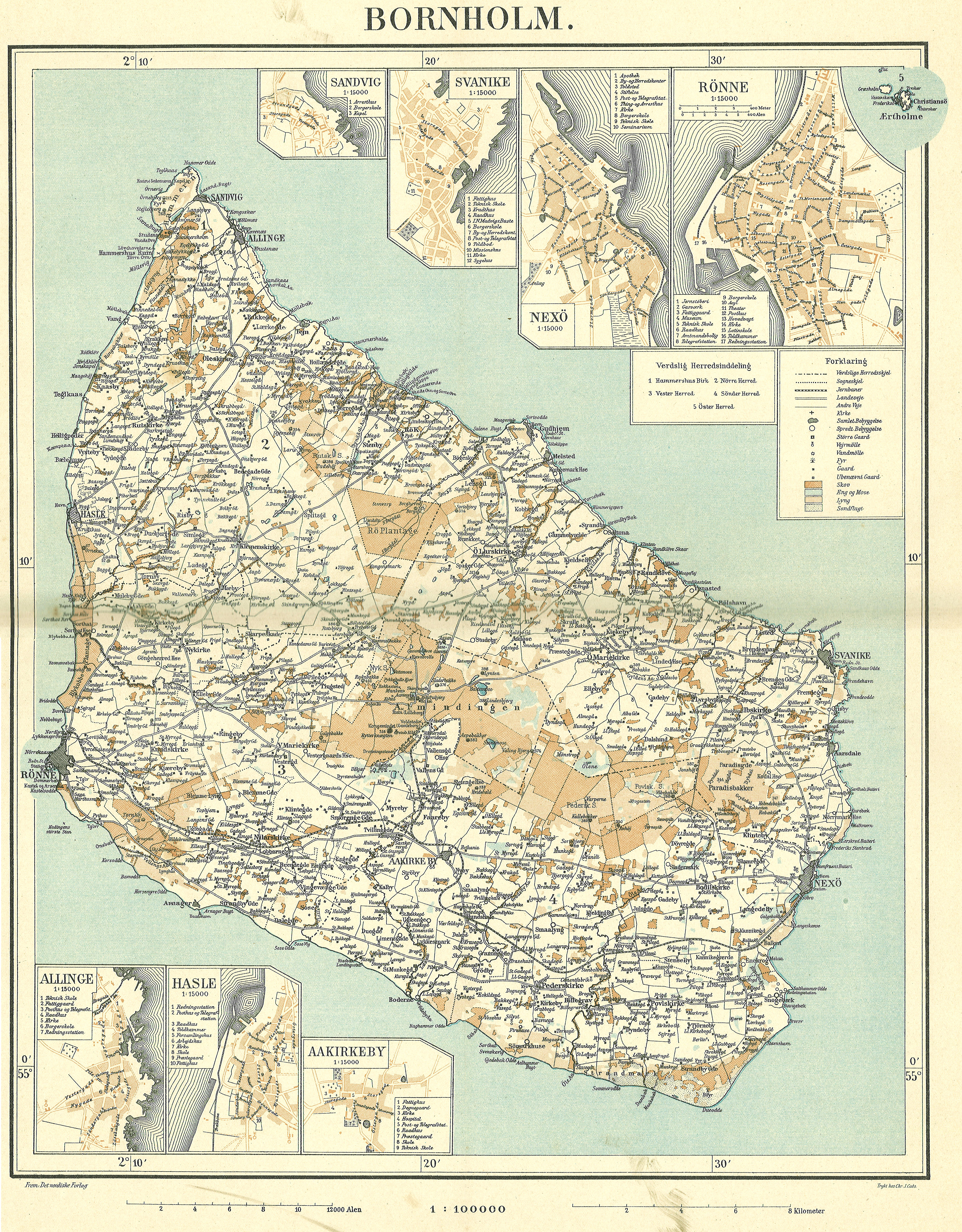 Map of Bornholm in Denmark